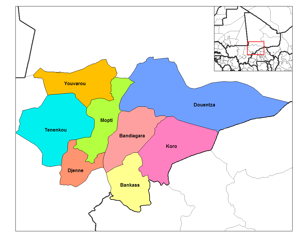 Map of the cercles of Mopti region in Mali. Created by Rarelibra 15:31, 18 September 2006 (UTC) for public domain use, using MapInfo Professional v8.5 and various mapping resources.